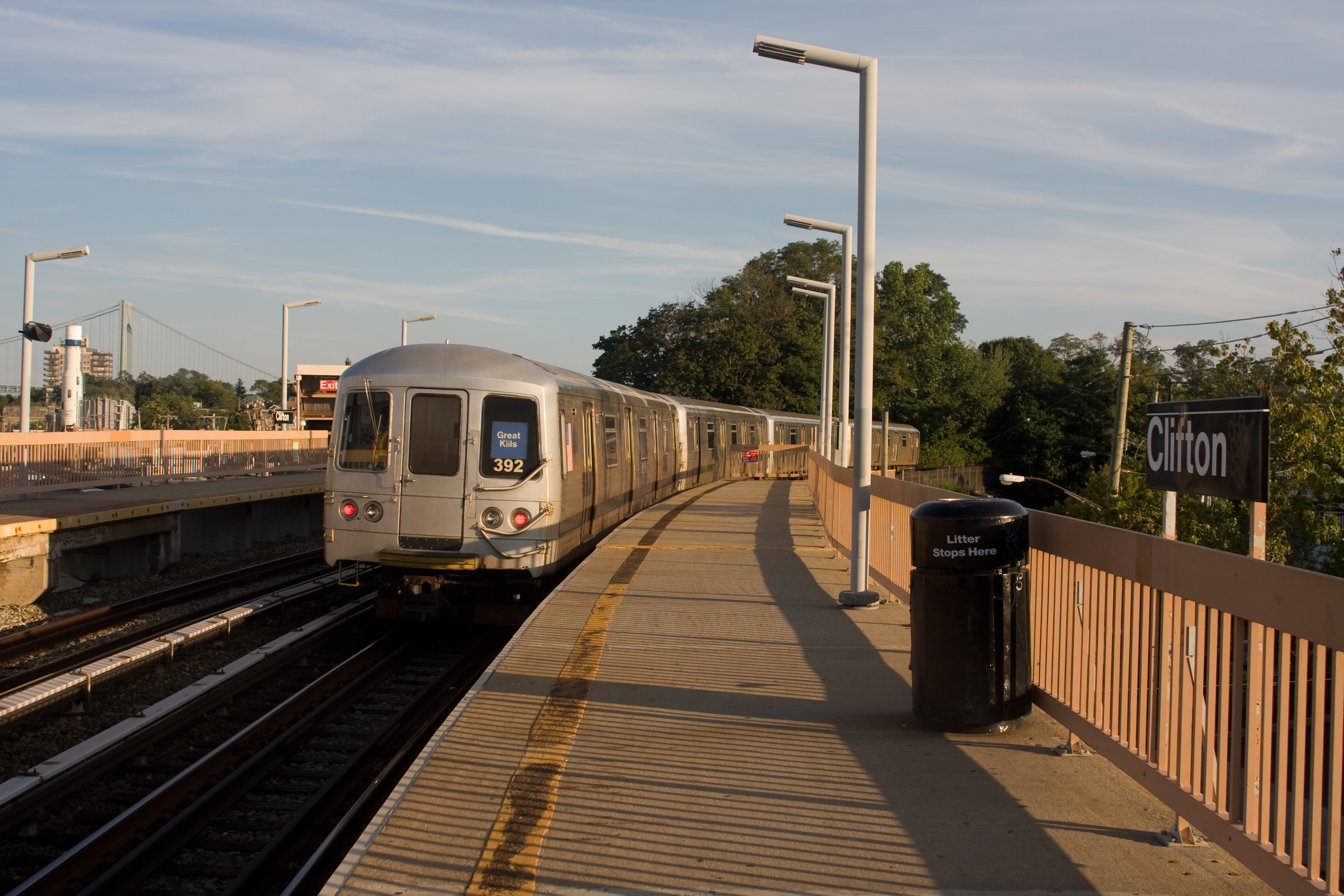 A St. George-bound Staten Island Railway train arrives at Clifton Station.